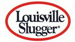 Louisville Slugger logo